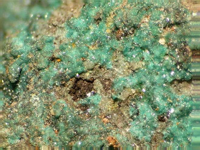 Niedermayrite Locality: Villia Mines, Villia area, Plaka, Lavrion District Mines, Lavrion (Laurion; Laurium) District, Attikí (Attica; Attika) Prefecture, Greece field of view 5 mm. Specimen and photo Leon Hupperichs.